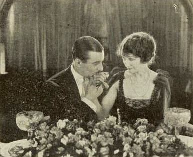 Still from the American film Heedless Moths (1921) with Ward Crane and Hedda Hopper, on page 1 of the May 19, 1921 Film Daily.